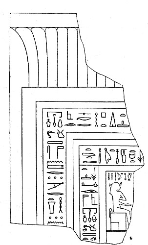 Drawing of the falsedoor belonging to the Ancient Egyptian queen Aat (wife of king Amenemhat III), found at Dahshur; about 1800 BC